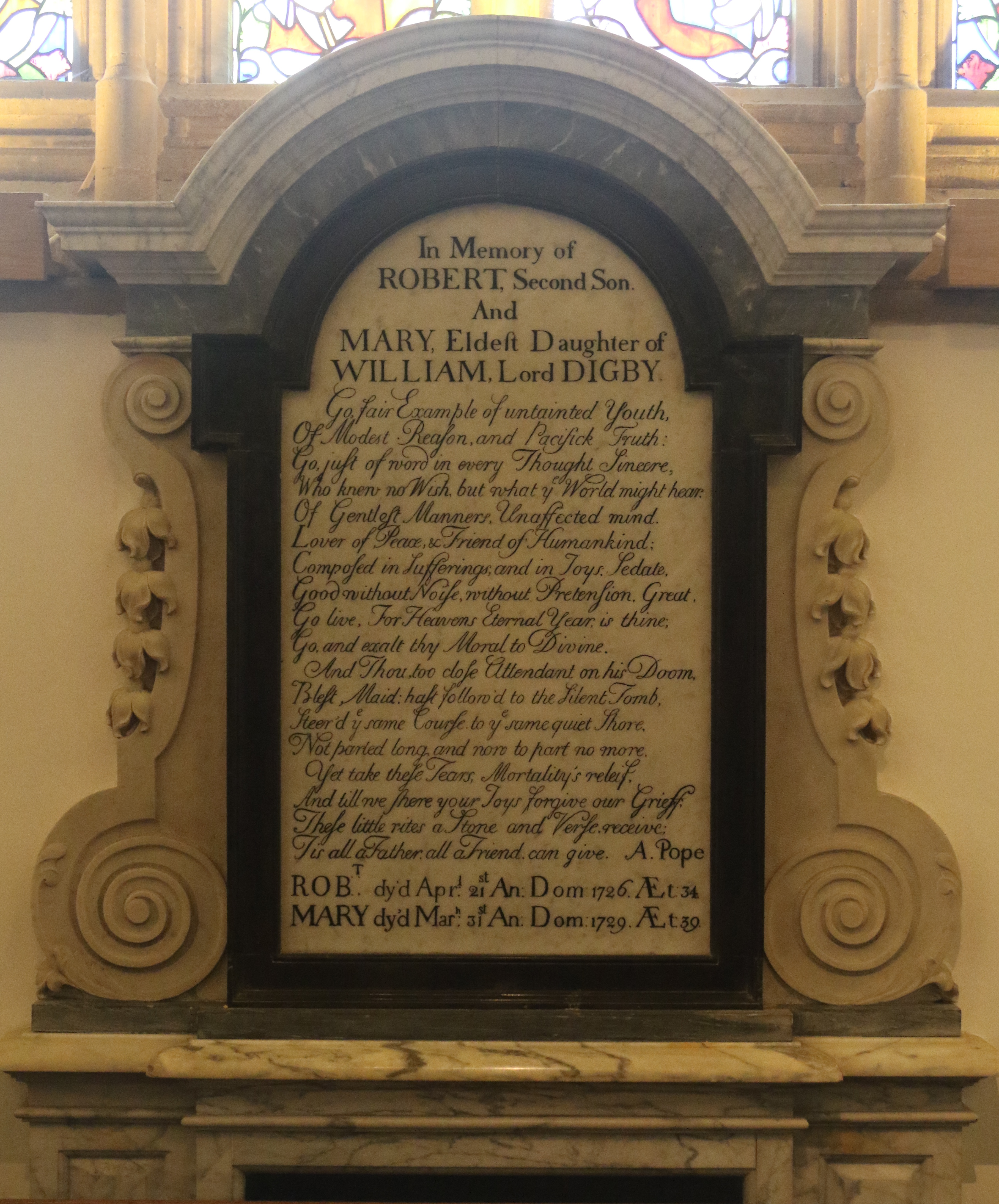 Robert, Second Son, and Mary, Eldest Daughter of William, Lord Digby.